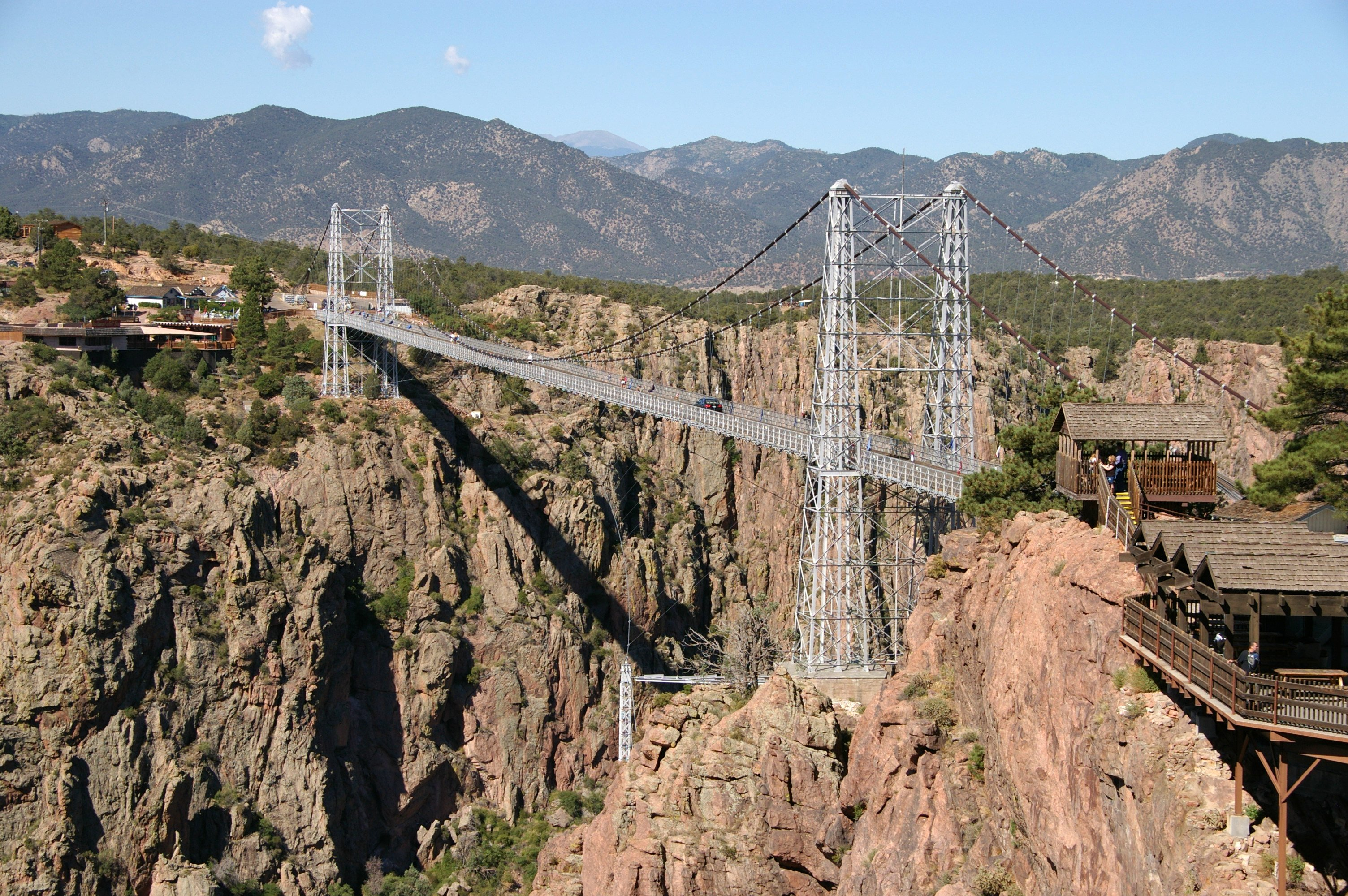 The Royal Gorge Bridge, from the north parking lot.